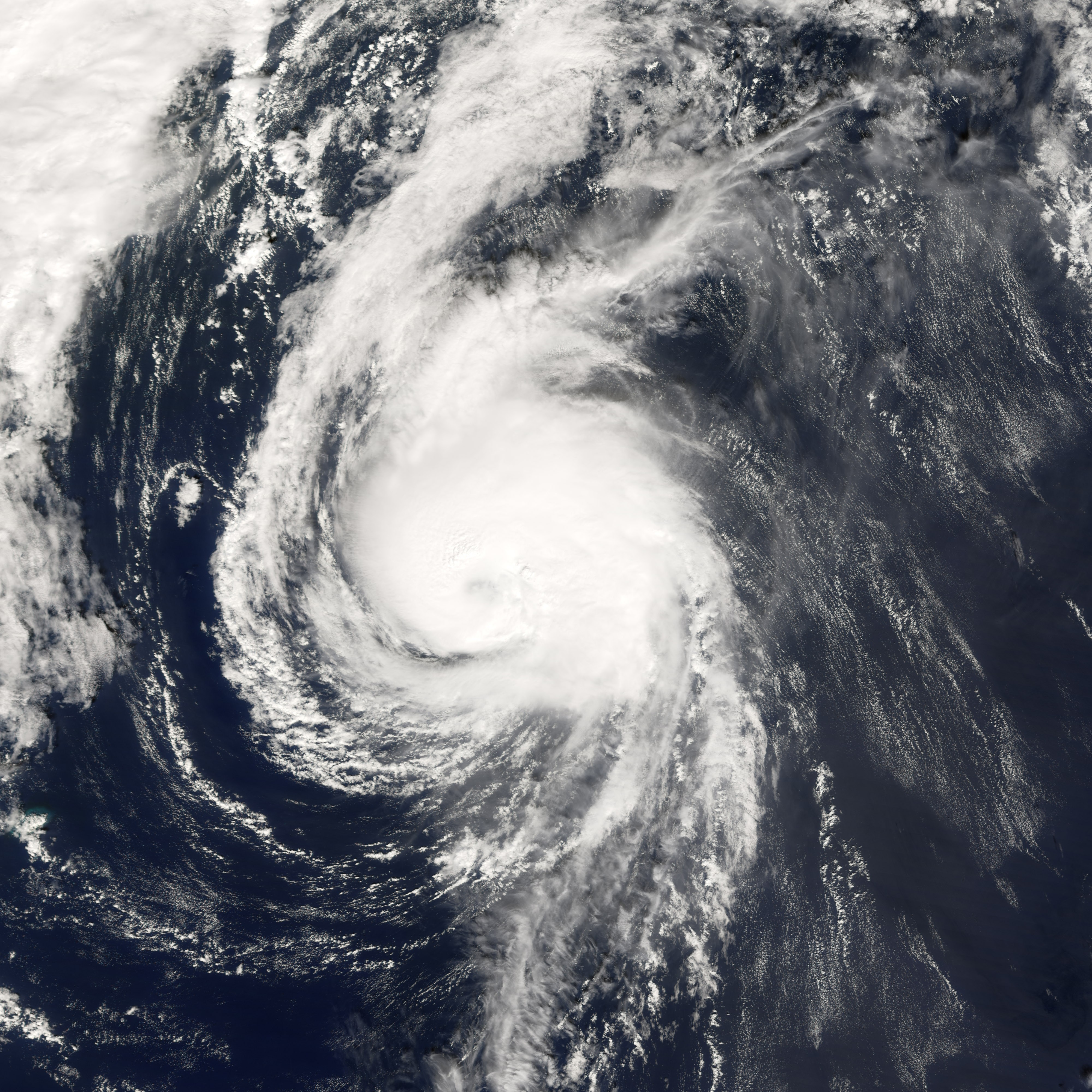 Hurricane Isaac became the fifth hurricane of the 2006 Atlantic Hurricane season on September 30. Beginning as a tropical depression three days earlier, Isaac formed in the central Atlantic Ocean far from any land. Isaac initially headed northeast on a track towards Bermuda, picking up power to become a hurricane. But Hurricane Isaac never posed a threat to the island, as it was veering off onto a more northerly track even as the storm became more organized and powerful. As of October 2, 2006, Isaac was heading north and slightly east in the general direction of the Canadian Maritime Provinces, but it was expected to curve off east and not come ashore in Canada either. The hurricane was losing power as it travelled north and was downgraded to a tropical storm by midday on October 2. This photo-like image was acquired by the Moderate Resolution Imaging Spectroradiometer (MODIS) on NASA’s Terra satellite on October 1 2006, at 12:35 p.m. local time (14:35 UTC). Isaac is a small well-formed tight ball of spiralling clouds around a well-defined eye filled with clouds (a “closed” eye). According to the University of Hawaii’s Tropical Storm Information Center, Isaac had sustained winds reaching as high as 75 miles per hour (85 mph according to NHC).